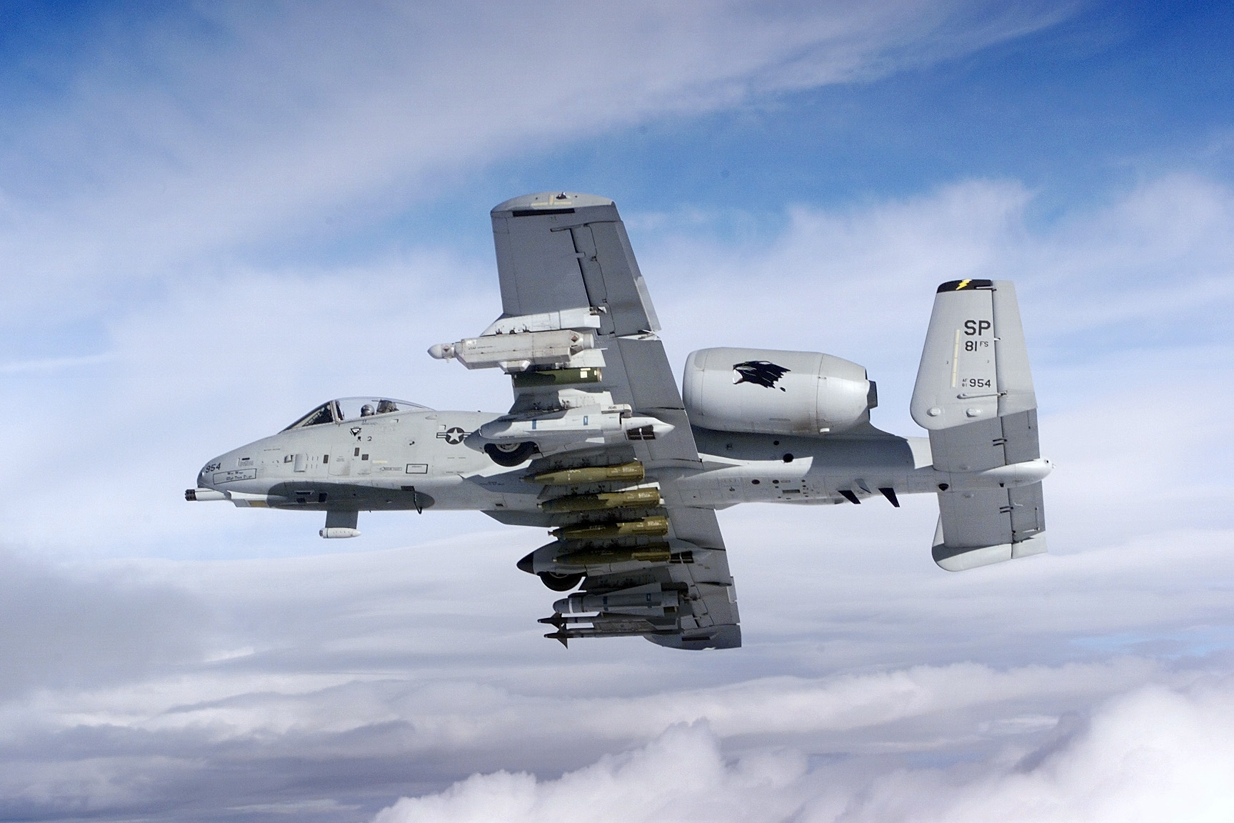 An A-10 from the 81st Fighter Squadron, Spangdahlem Air Base (Germany), flies over central Germany on Feb. 17, 2000